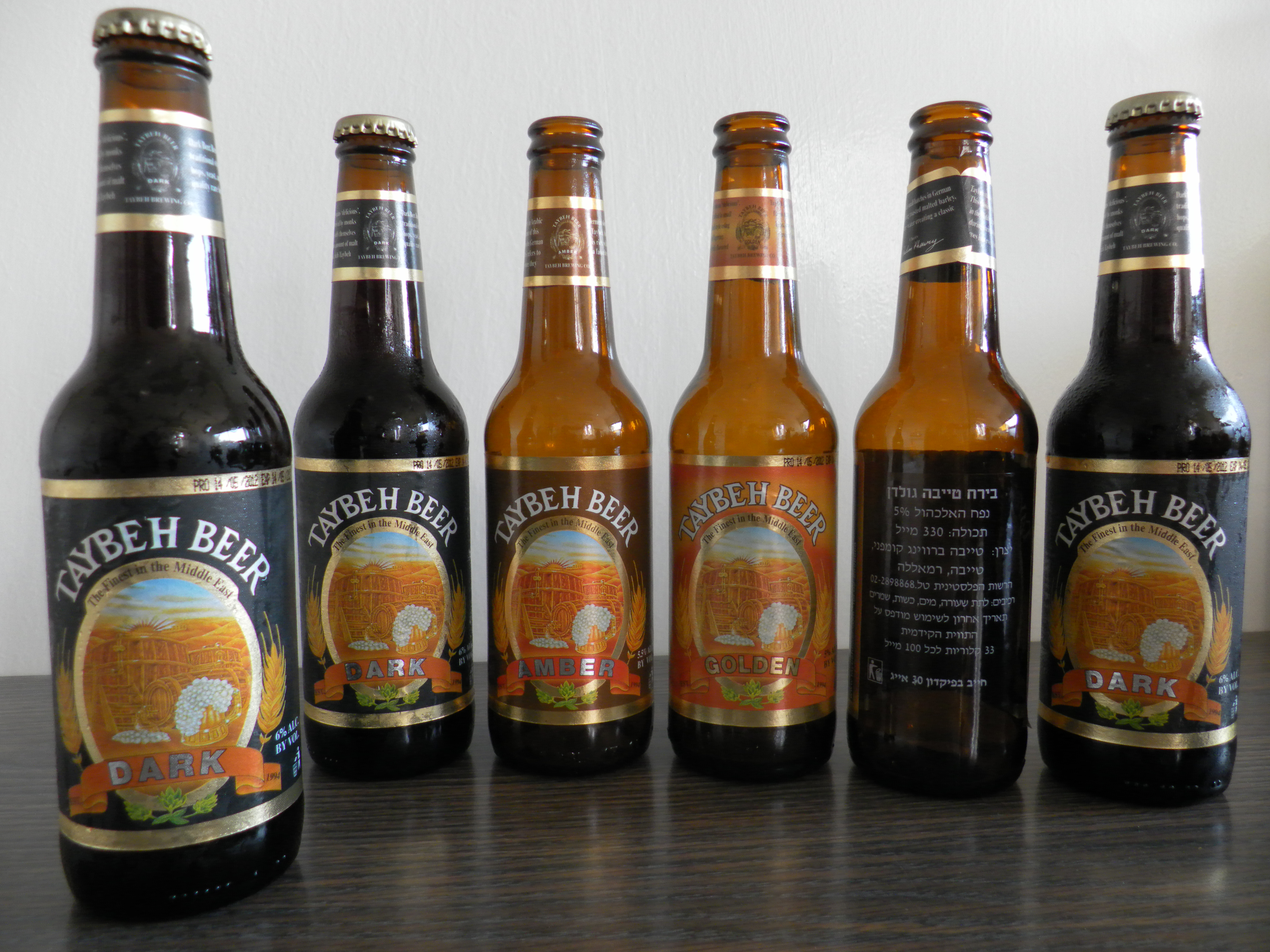 Taybe beer in three varieties - Dark, Amber, Golden, incl. Hebrew information label